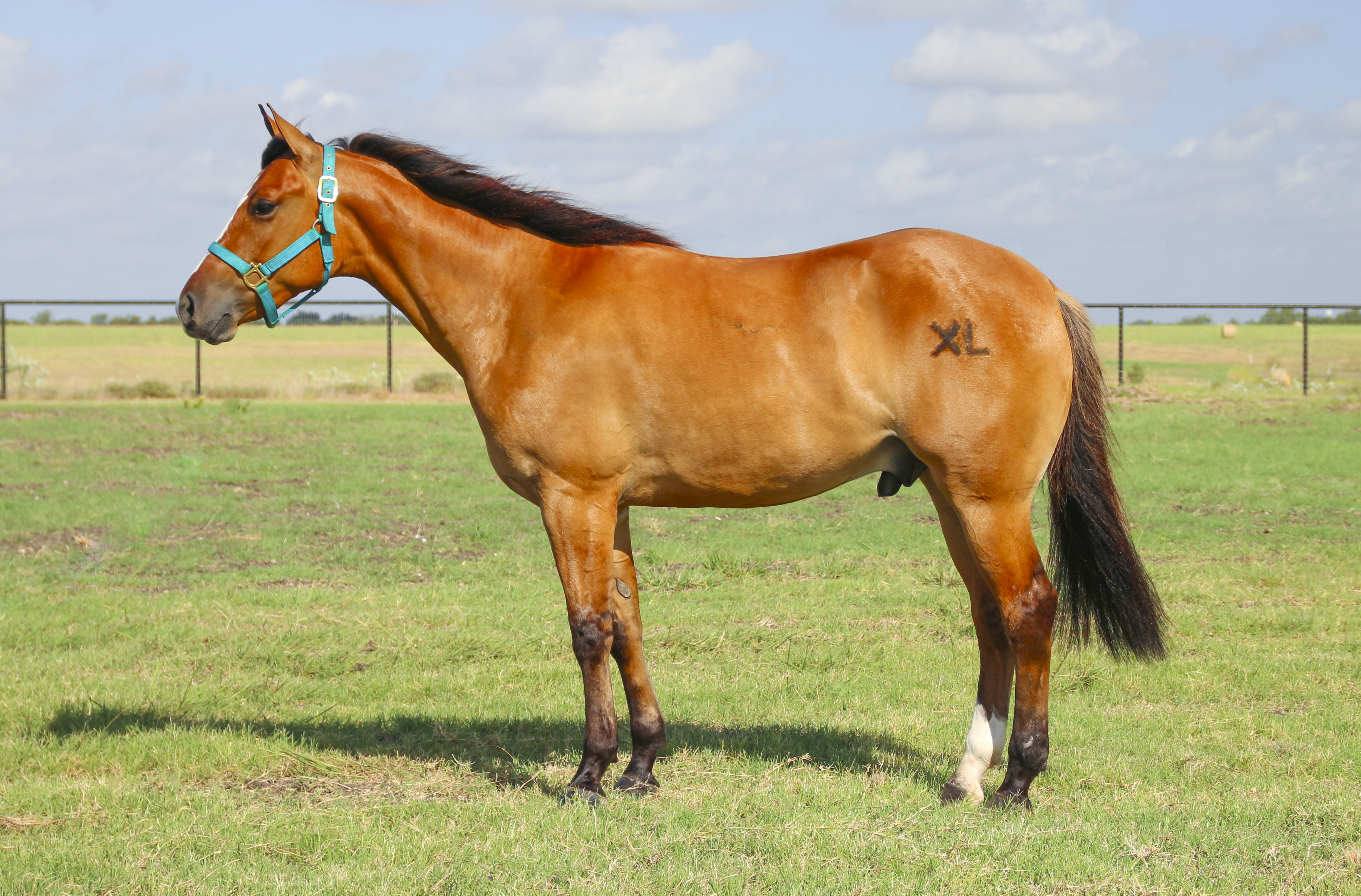 American Quarter Horse (dun color) with the brand XL on hip in Texas